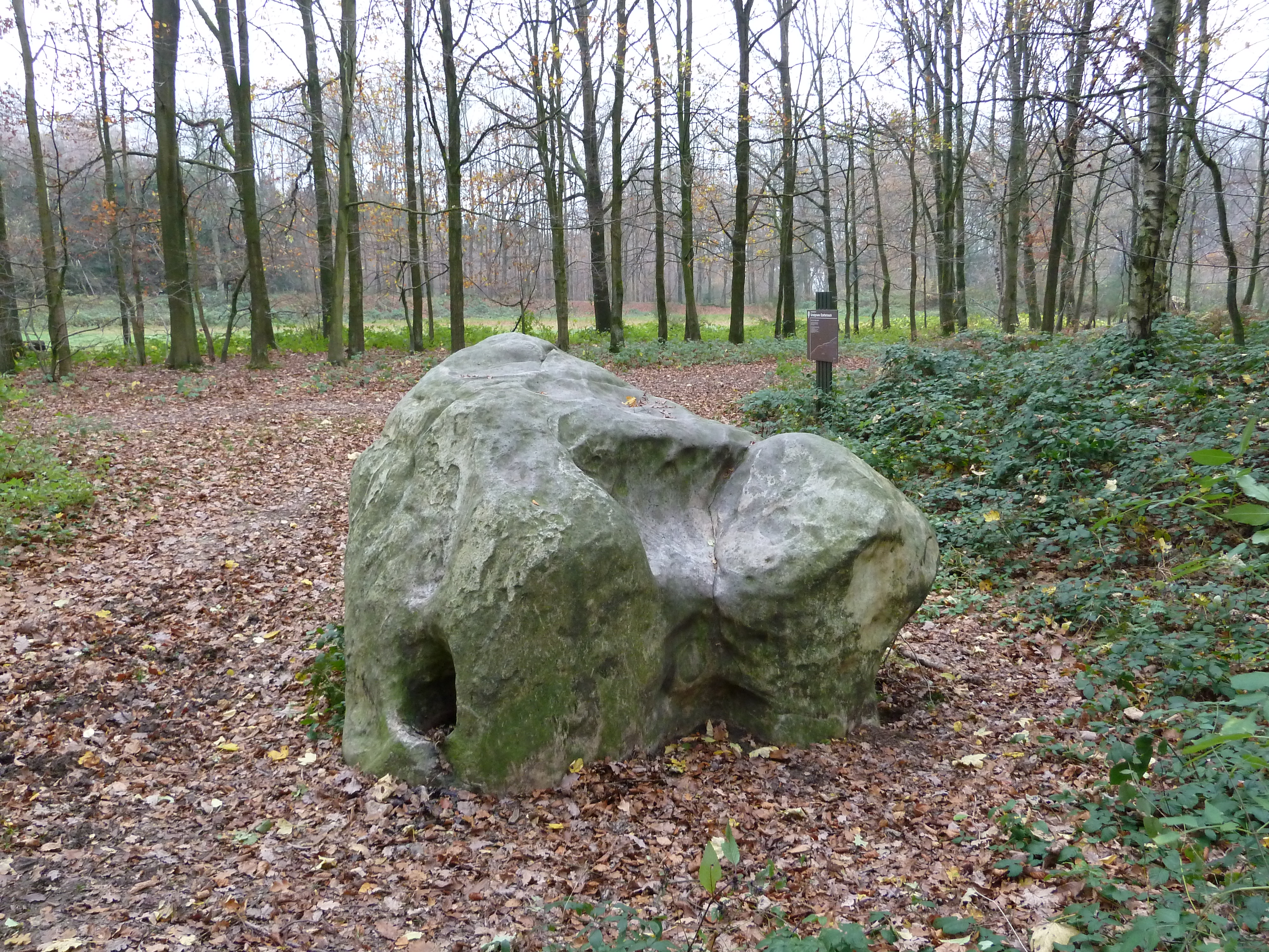 Geological monument Grindgroeve Elzetterbosch, Vaals, Limburg, the Netherlands